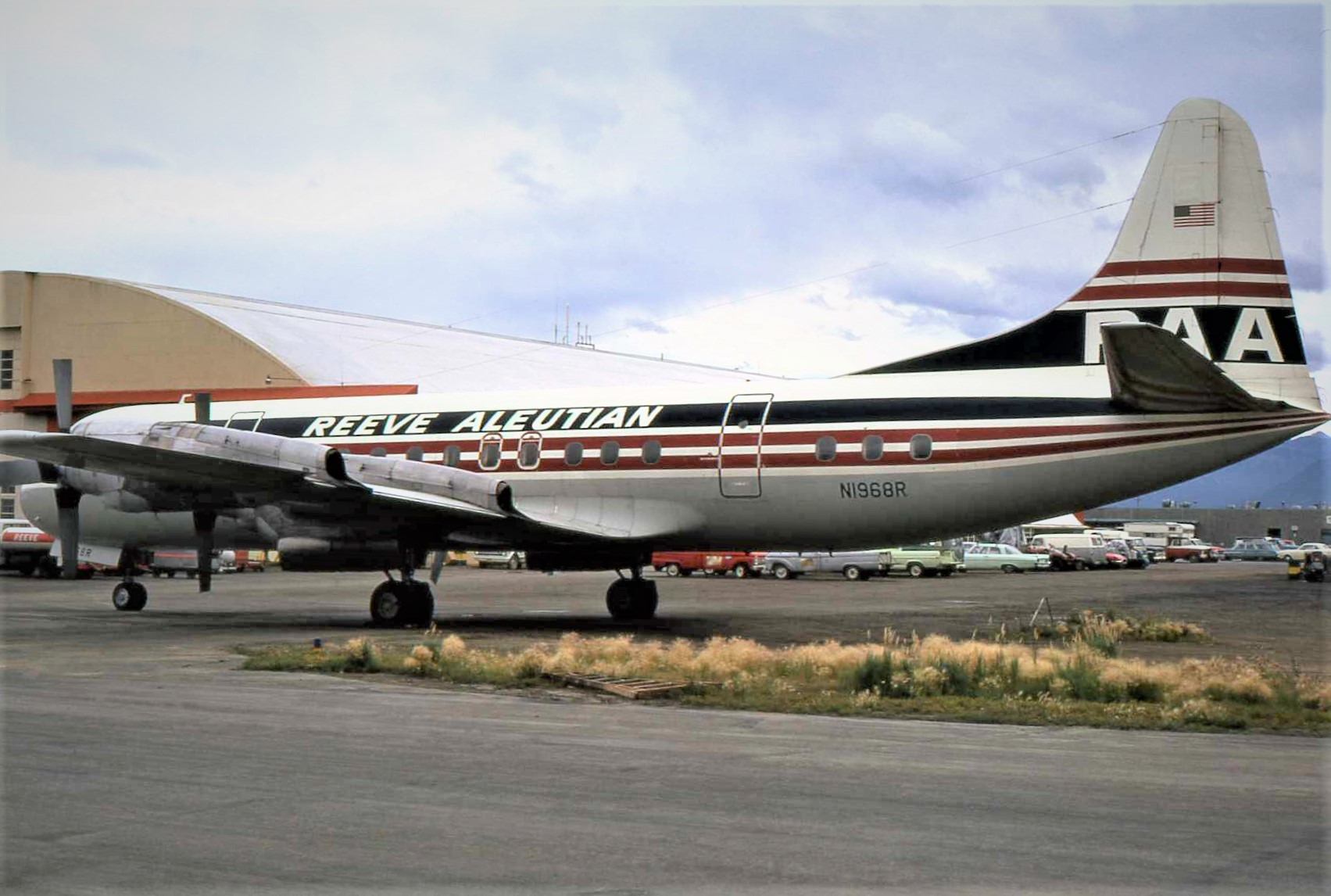 Reeve Aleutian Airways Lockheed Electra L-188C N1968R c/n 2007 delivered on November 25, 1959 to Qantas as VH-ECC Endeavour. Sold to Air New Zealand on December 1966 as ZK-CLX Akaron. Sold to Reeve Aleutian Airways on February 17, 1968.